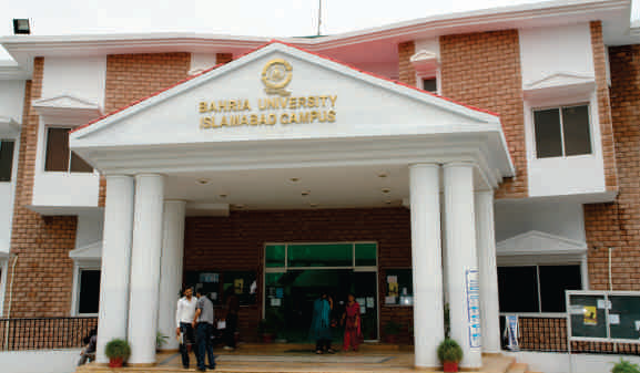 Bahria University (BU) Islamabad Building.